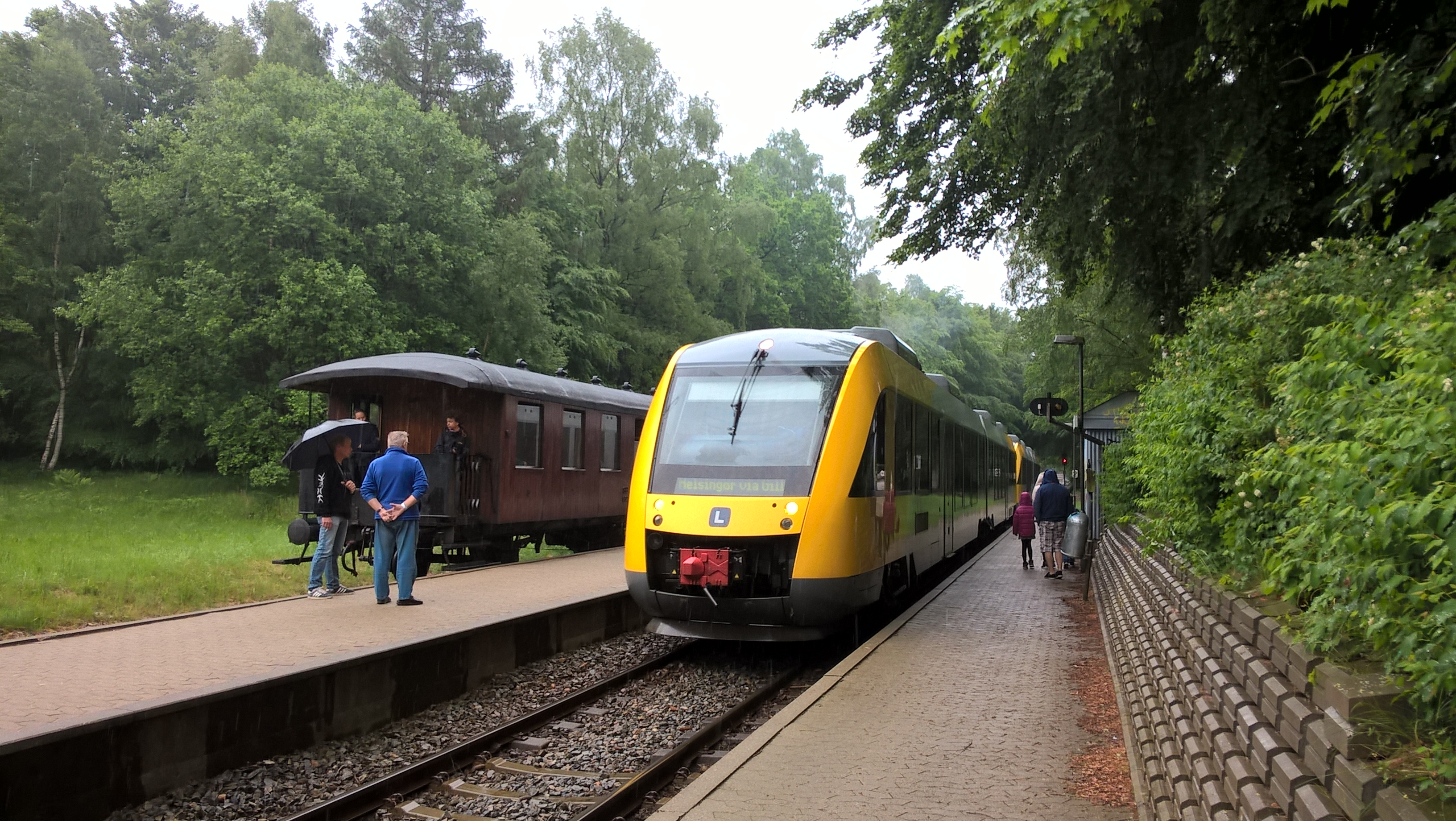 A diesel multiple unit of the type Lint 41 of Lokaltog at Mårum Station on Gribskovbanen in Denmark. At the left a heritage train of Nordsjællands Jernbaneklub.